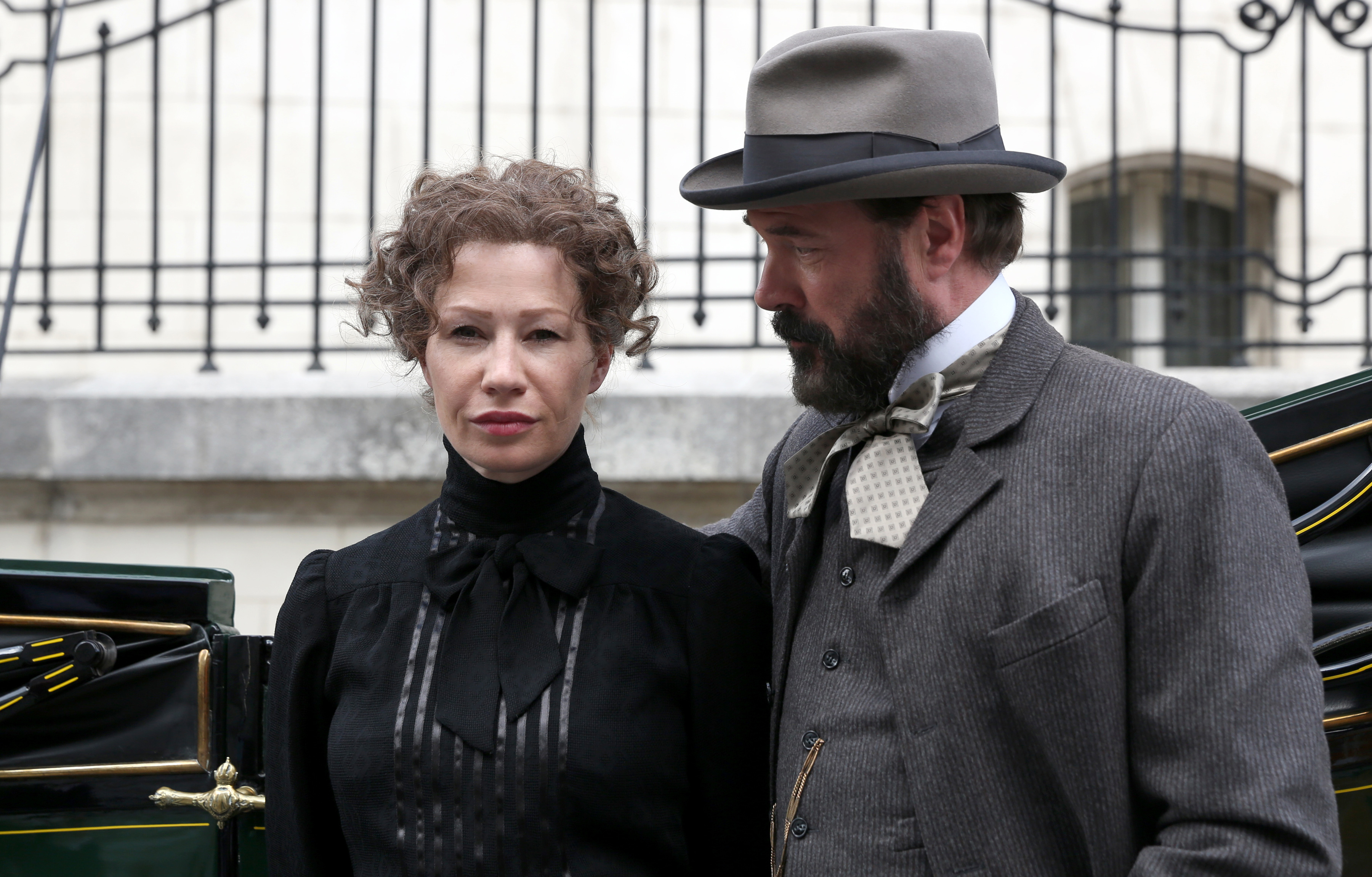 Birgit Minichmayr as Bertha von Suttner and Sebastian Koch as Alfred Nobel on the filming location of the movie Madame Nobel in and around the Embassy of France in Vienna (Vienna, Austria).